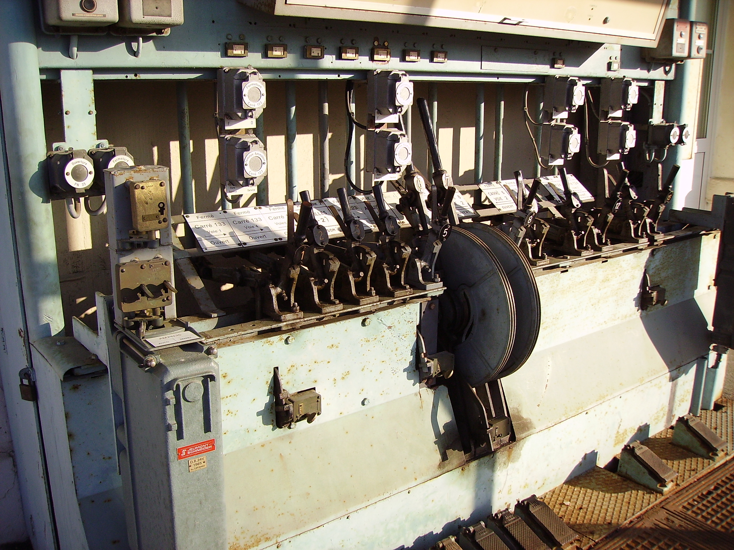 Hand-operated point levers of the Mussidan railway station.